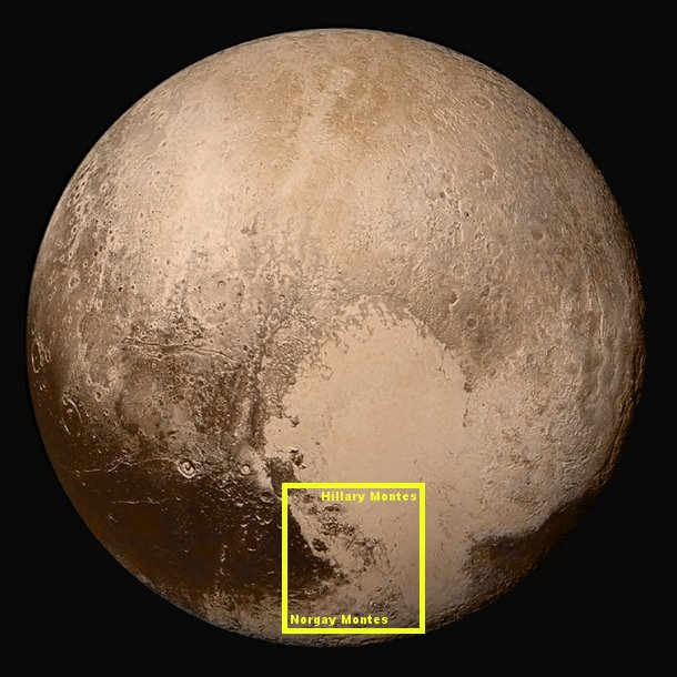 July 24, 2015 Global Mosaic of Pluto in True Color FILE DESCRIPTION: Pluto Four images from New Horizons’ Long Range Reconnaissance Imager (LORRI) were combined with color data from the Ralph instrument to create this sharper global view of Pluto. (The lower right edge of Pluto in this view currently lacks high-resolution color coverage.) The images, taken when the spacecraft was 280,000 miles (450,000 kilometers) away from Pluto, show features as small as 1.4 miles (2.2 kilometers). That’s twice the resolution of the single-image view captured on July 13 and revealed at the approximate time of New Horizons’ July 14 closest approach. UPLOADER NOTES (Drbogdan (talk) 16:58, 25 July 2015 (UTC)): Added yellow square location box - with "Hillary Montes" and "Norgay Montes" text - via JASC Paint Shop Pro v6.02